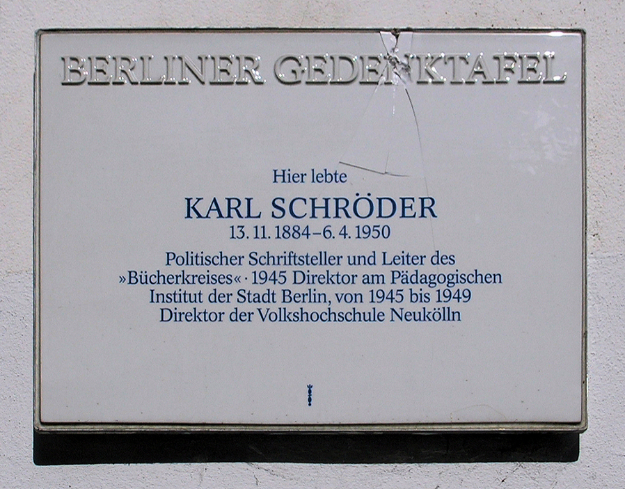 Berlin memorial plaque, Karl Schröder (KAPD), Fuldastraße 37, Berlin-Neukölln, Germany Koordinate:52°29′10″N 13°26′19″E / 52.48611°N 13.43861°E